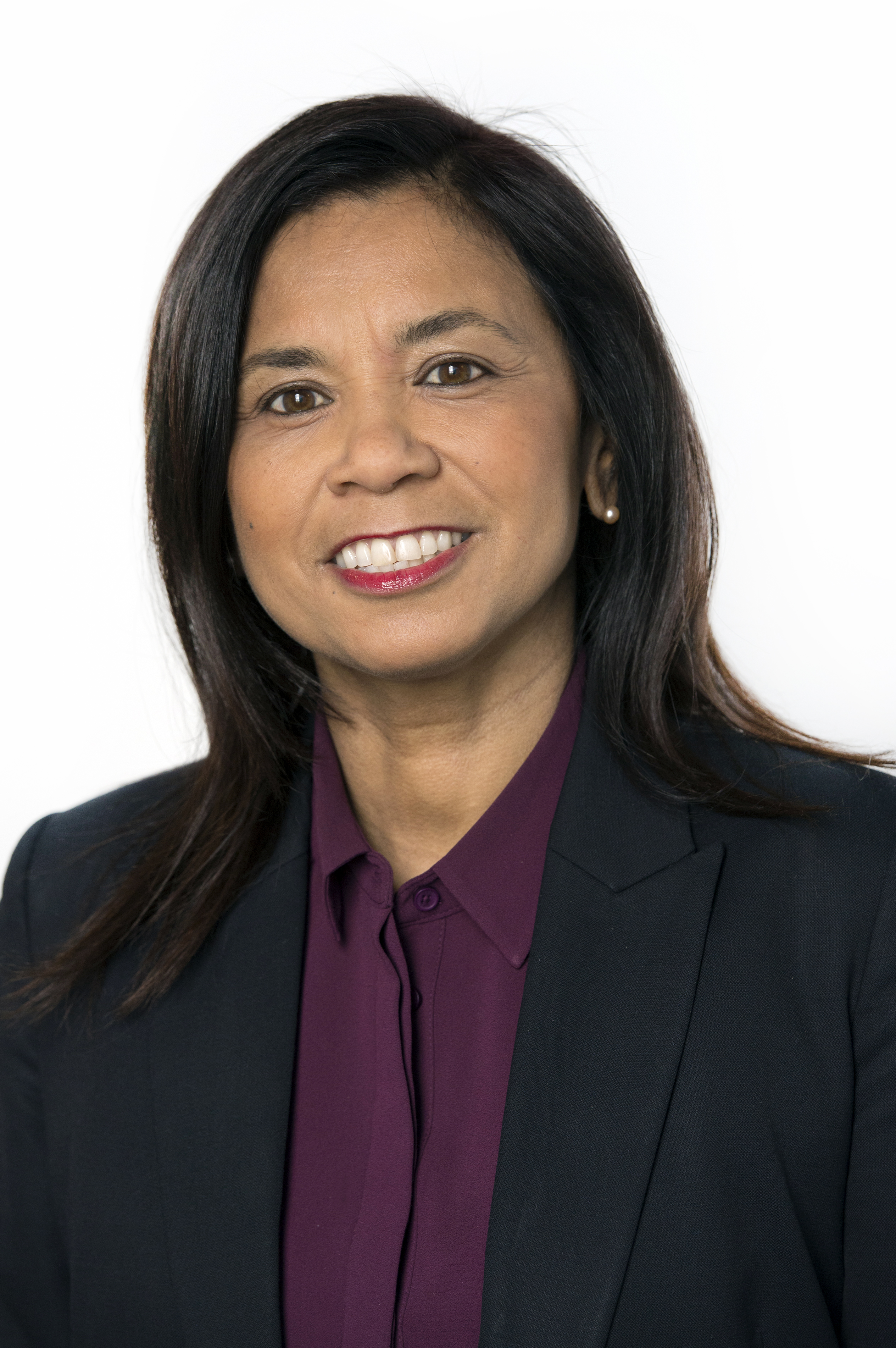 Terri Janke, website photo, white background